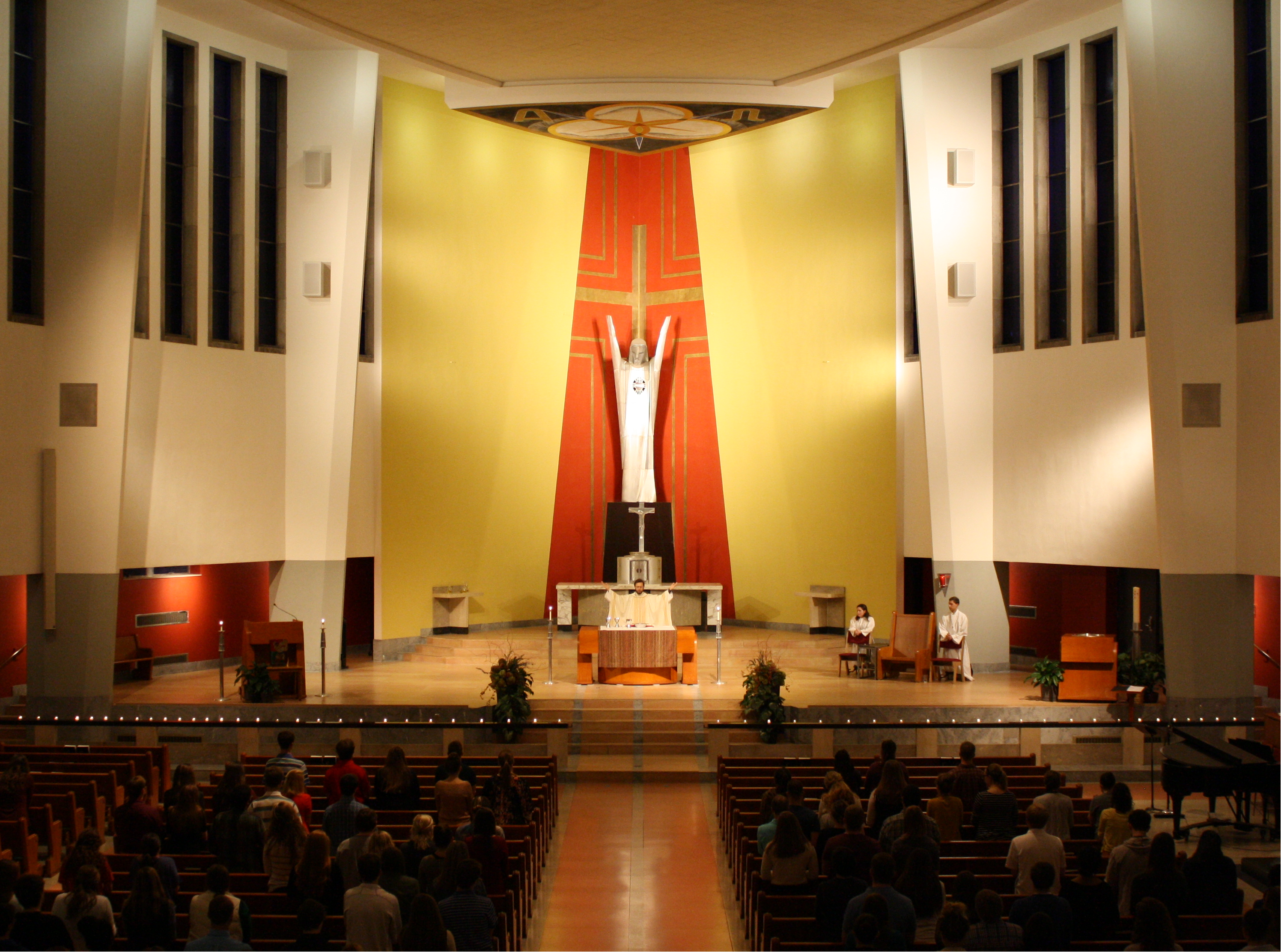 Rockhurst University Sunday 6:00 pm student Mass at St. Francis Xavier Church